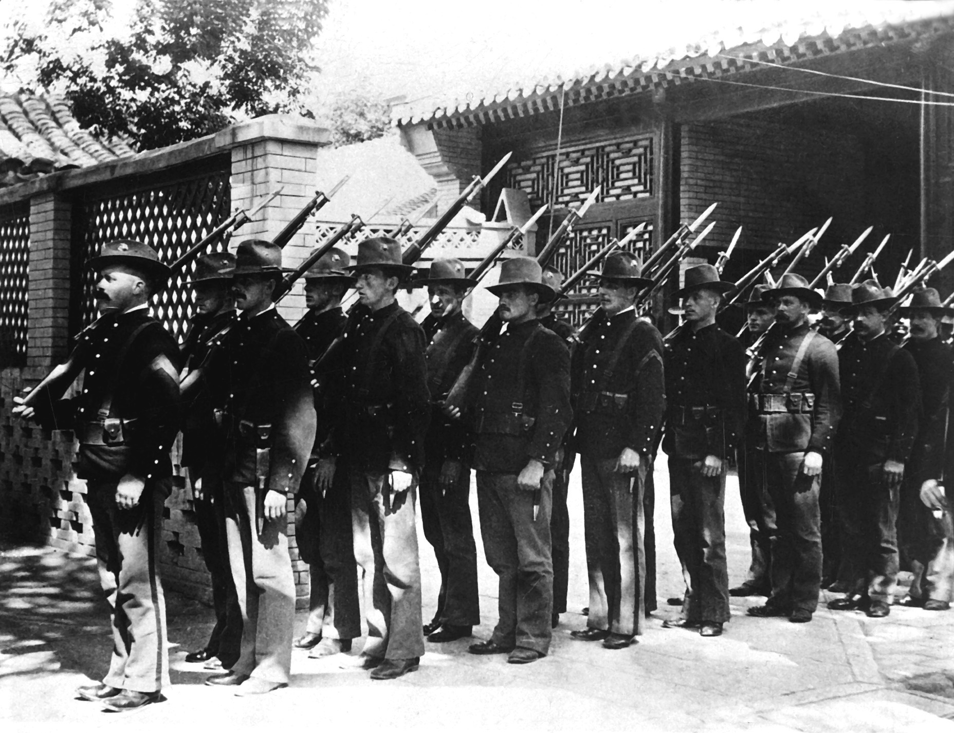 US Marines in relief party in Peiping, China. ID: HD-SN-99-01986 NARA FILE #: 127-N-515634 WAR & CONFLICT BOOK #: 327